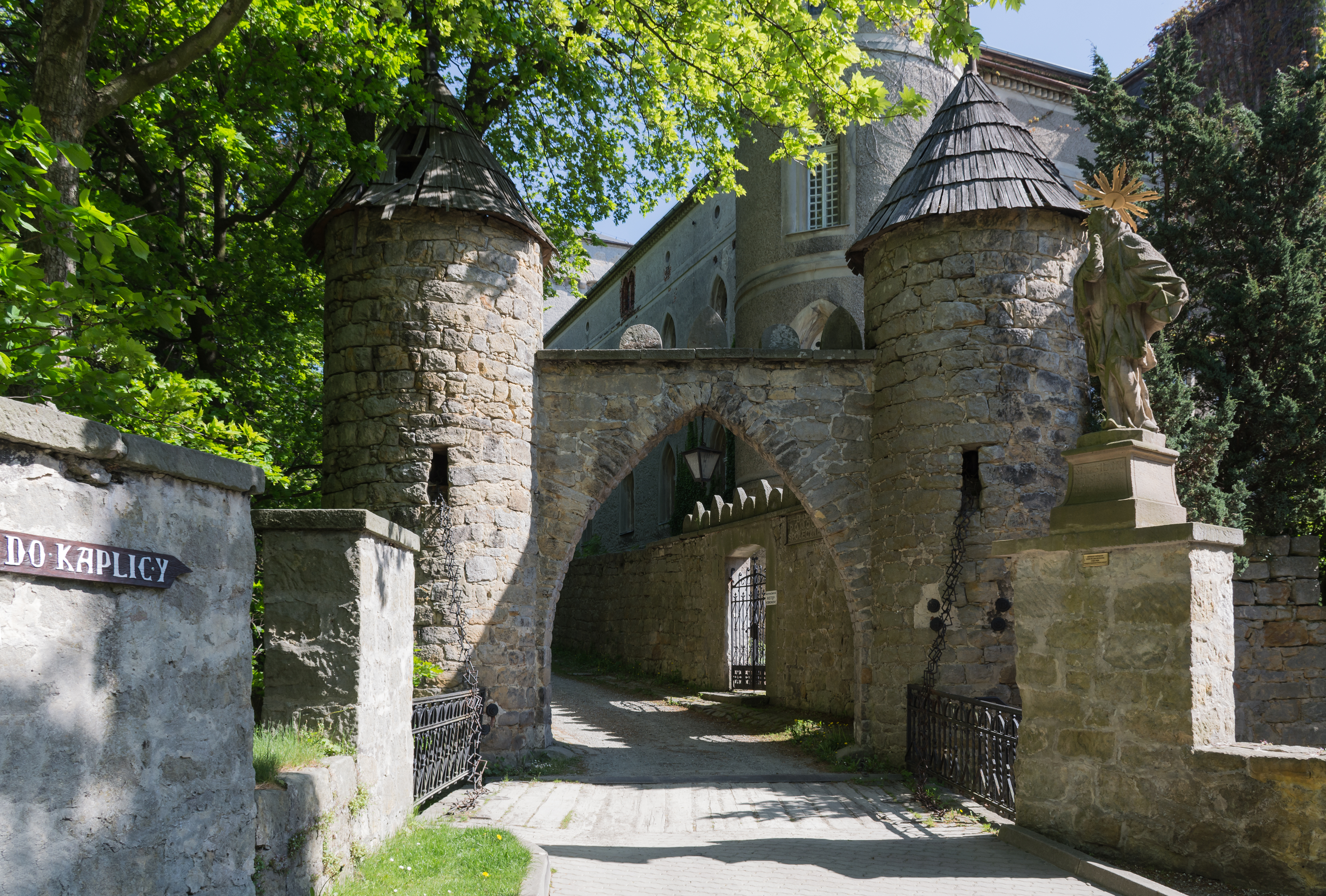 Leśna castle in Szczytna